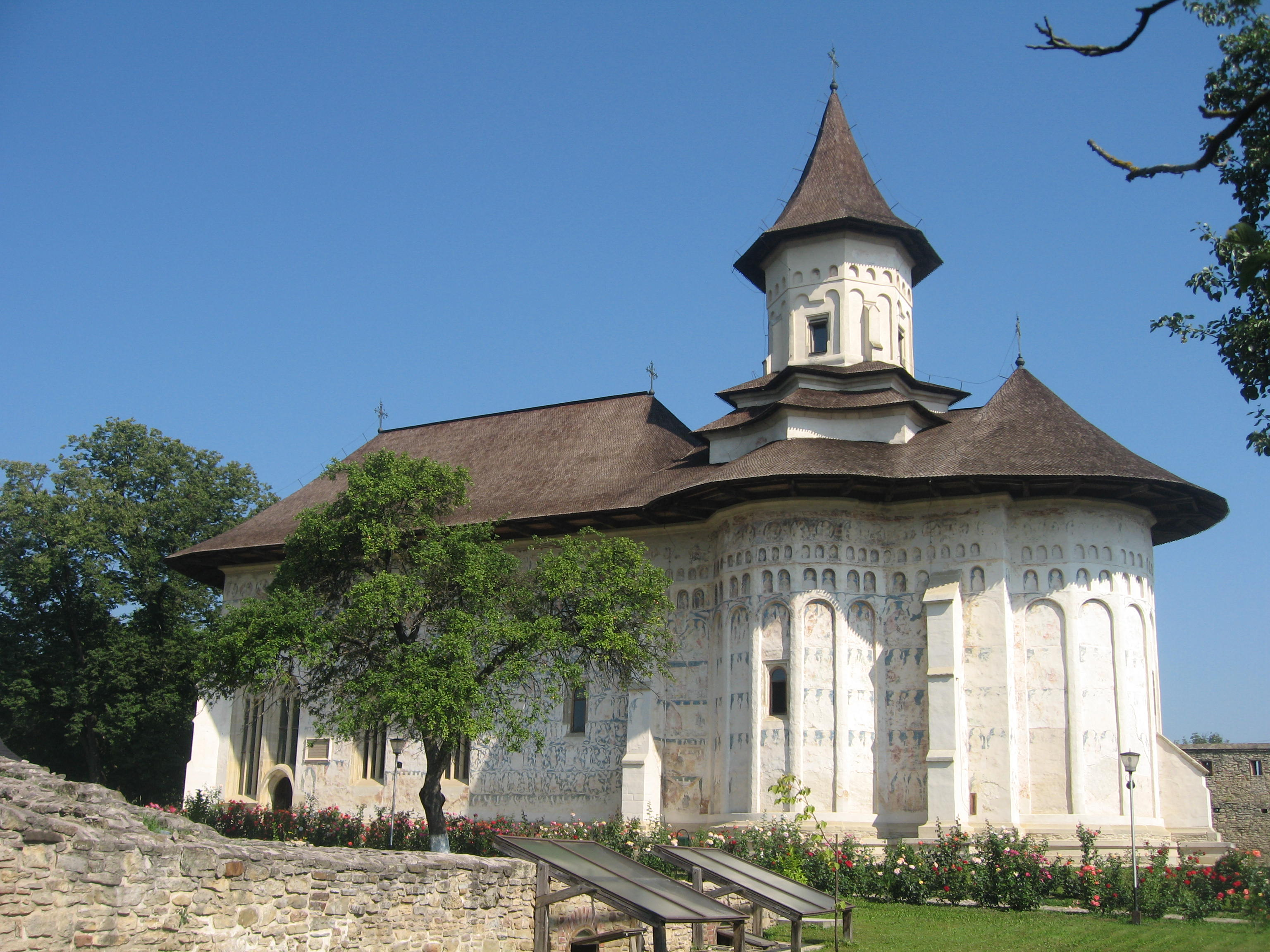 Probota Monastery